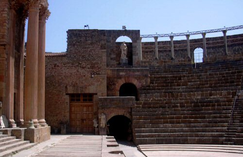 Photographer: GASMI. M. "Source: Own photograph by uploader"